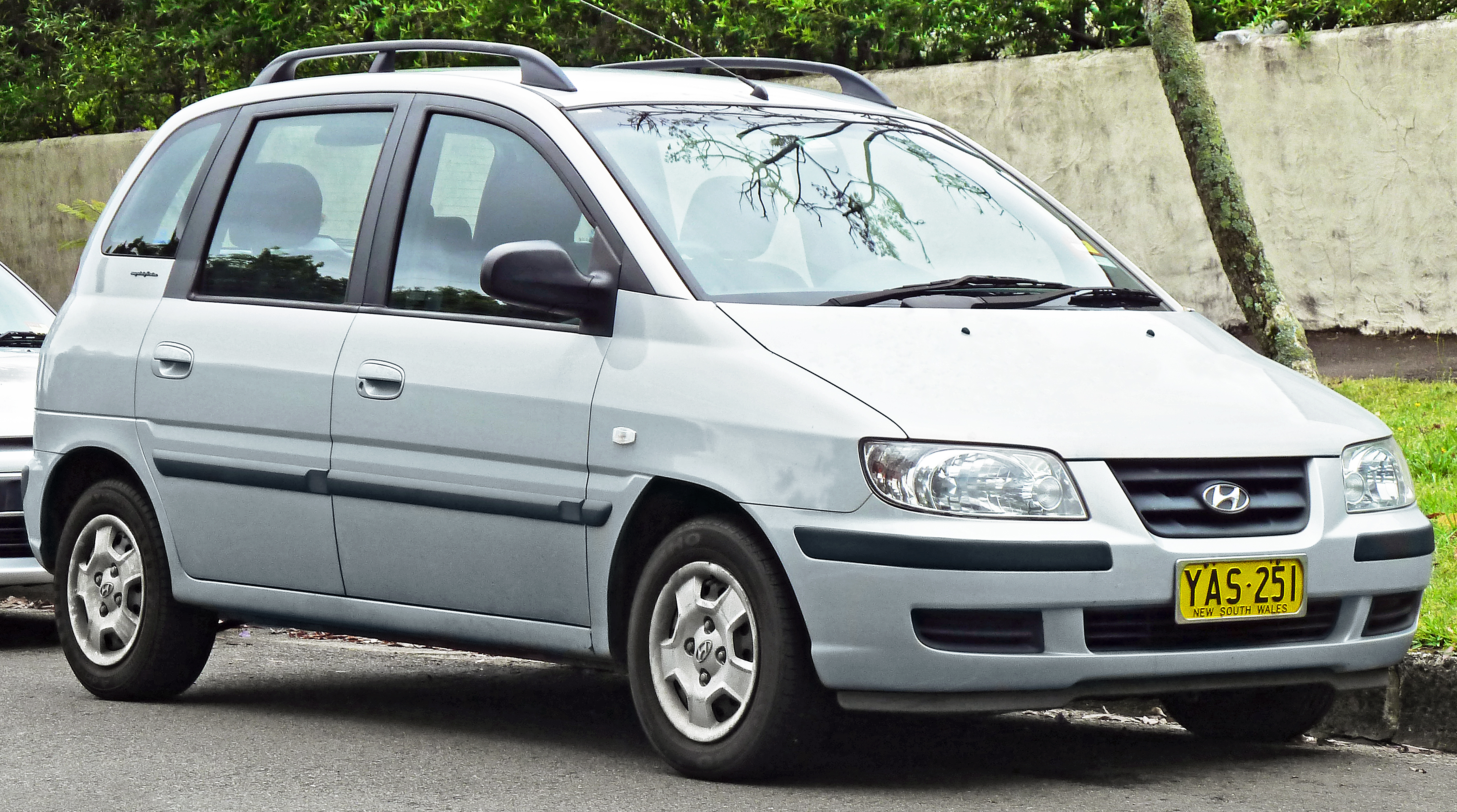 2001–2004 Hyundai Elantra LaVita (FC) GLS hatchback. Photographed in Gordon, New South Wales, Australia.